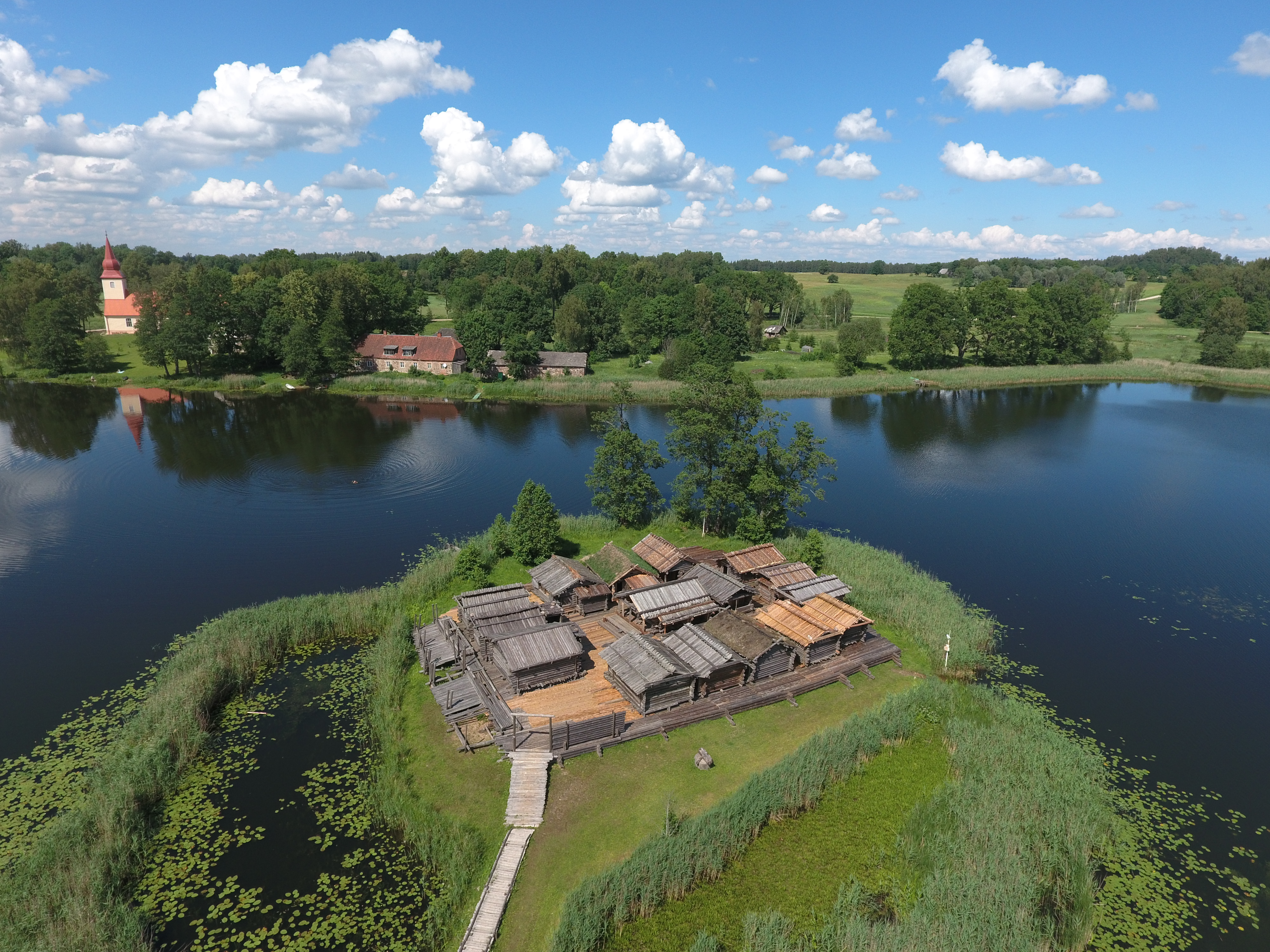 Āraiši lake dwelling site, Drabeši parish